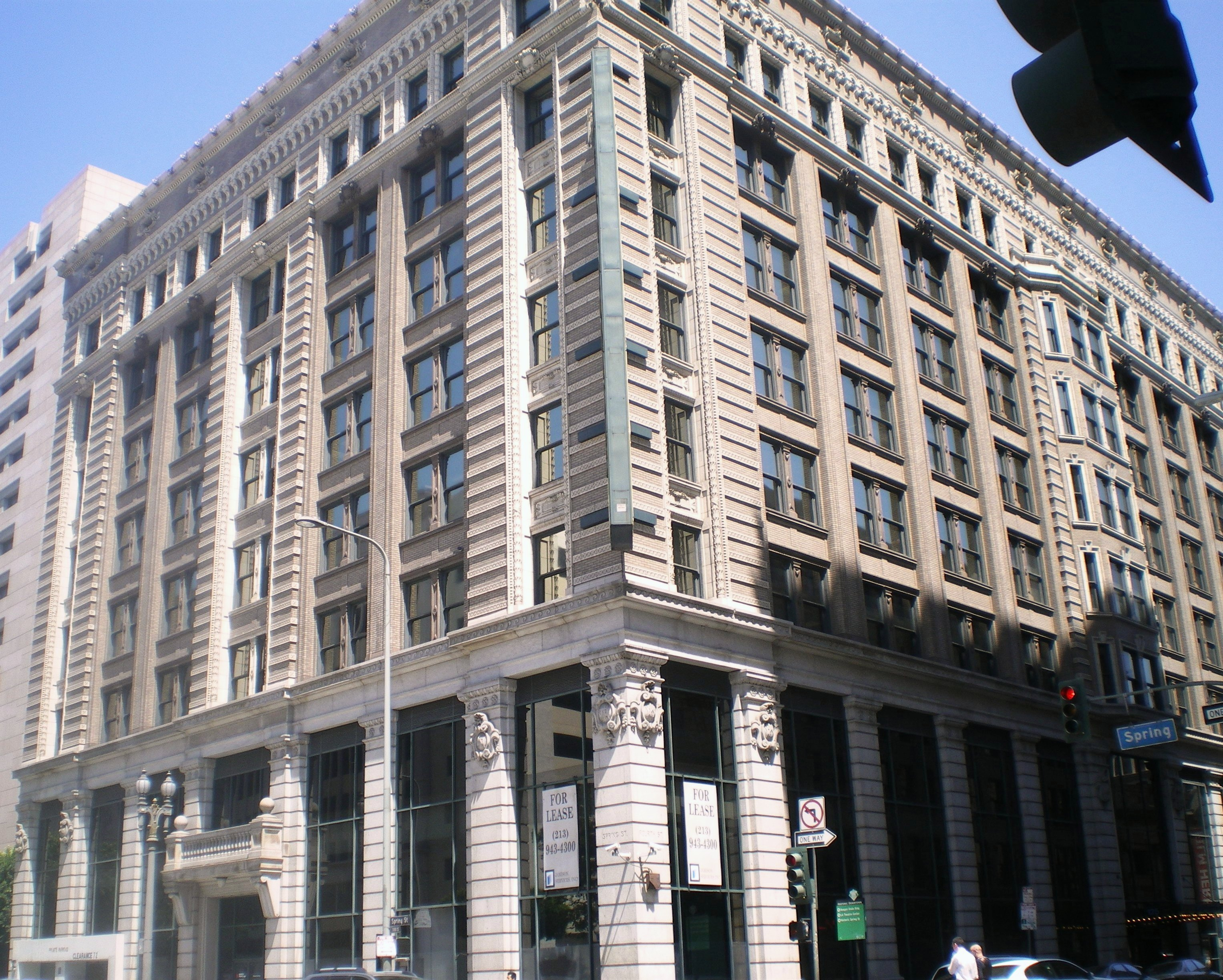 Hellman Building — northeast corner of S. Spring Street and 4th Street, Downtown Los Angeles, California. A Los Angeles Historic-Cultural Monument, a Historic district contributing property of the Spring Street Financial District, a historic district on the National Register of Historic Places in Los Angeles.